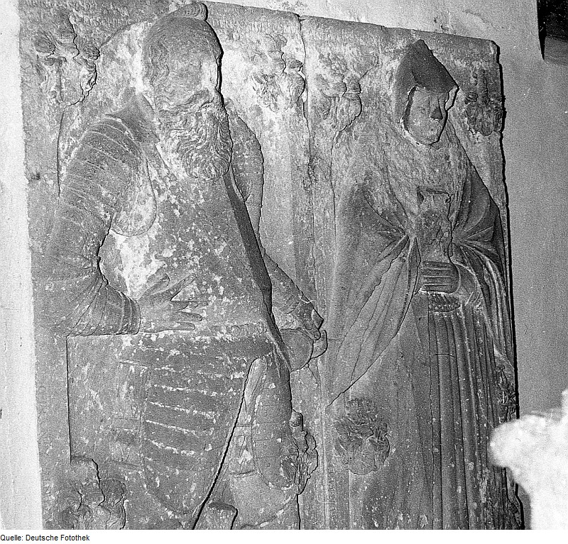 Triebischtal-Tannenberg. Church, tombs Alnpeck